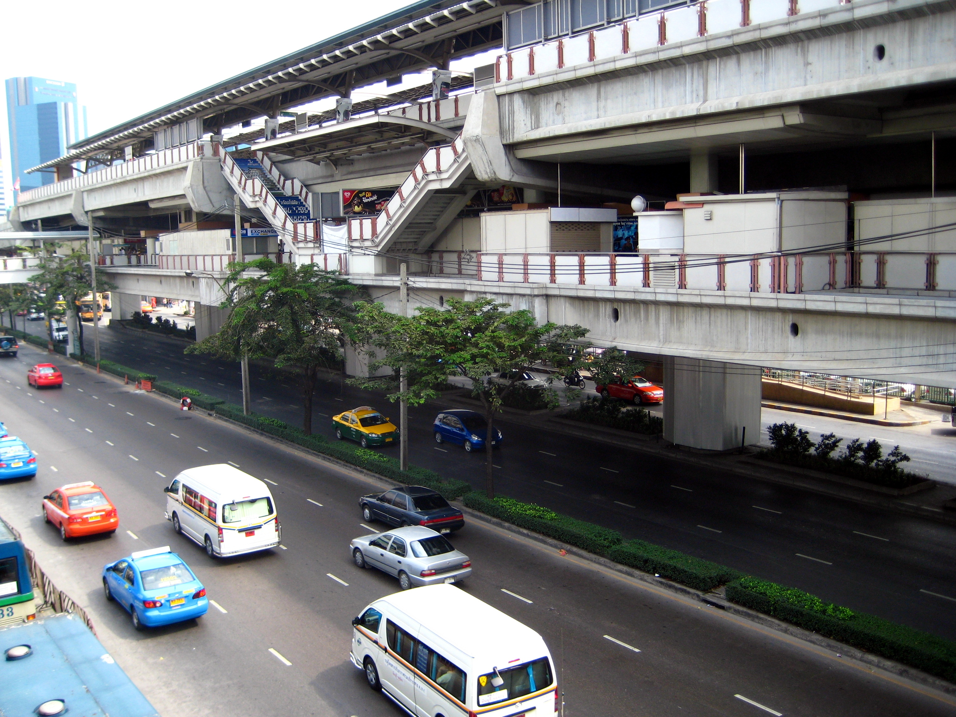 From the bridge Mo Chit skytrain station